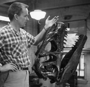 Photo of James A Jensen holding a finished Antrodemus skull on his little finger to show how light the finished product is. At Harvard in late '50's when he experimented with open cell foams. Photo was bequeathed to me by my father in his will. I wish to make it available without restriction to anyone. No one else has an interest in this photo.